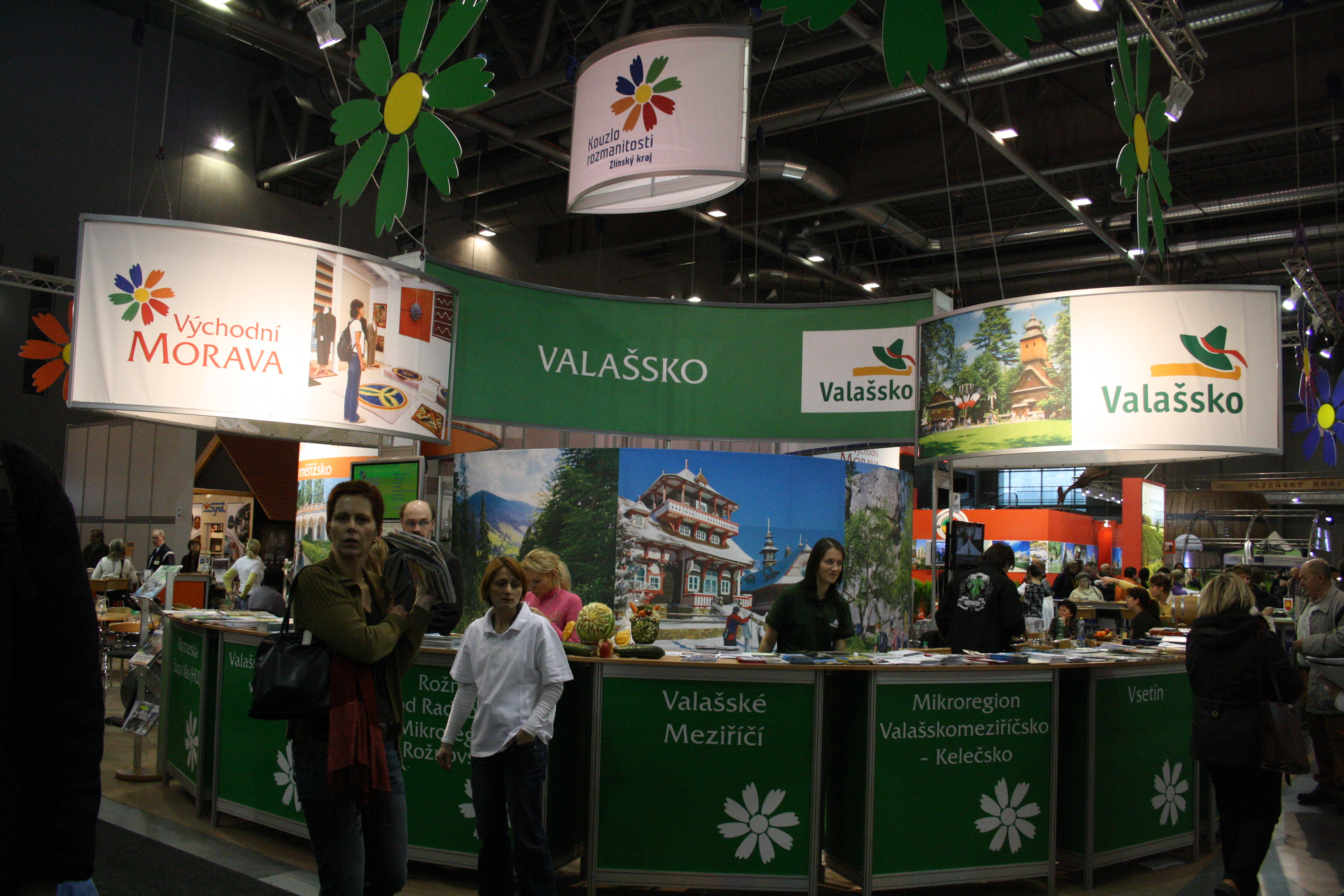 Presentation of various touristic destinations of Czech Republic.